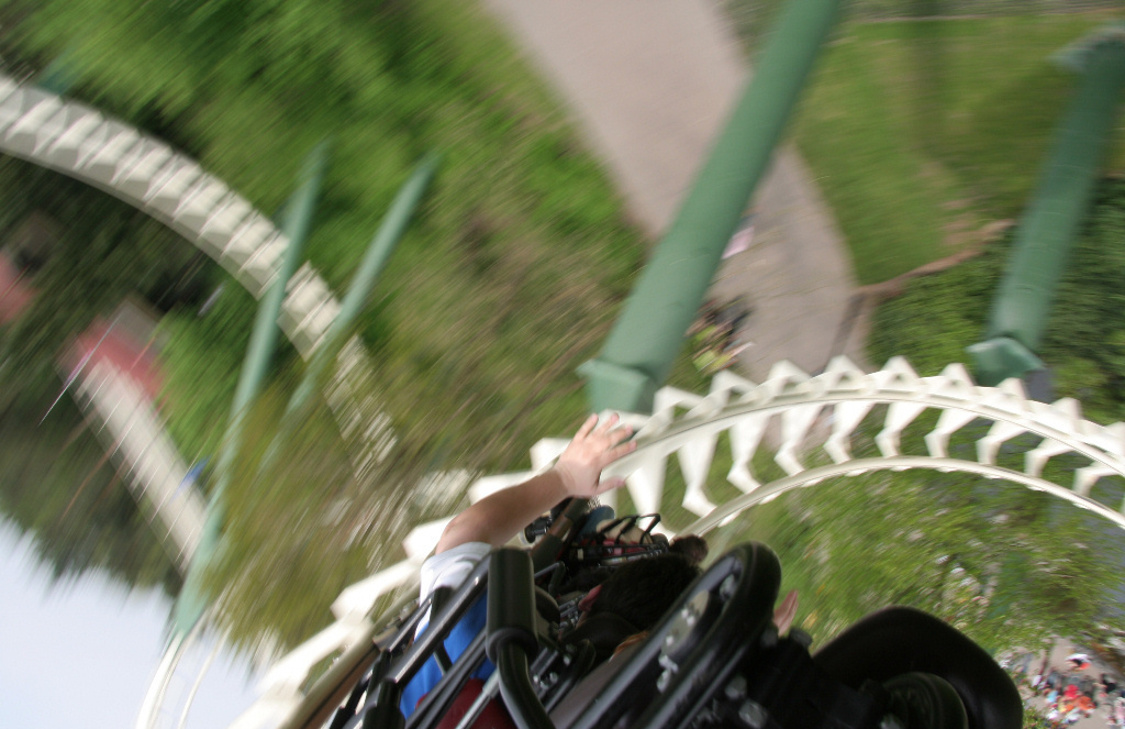 Action shot from the Python rollercoaster in the Efteling in Kaatsheuvel. It's quite tricky to take along a DSLR on it under your sweater because taking (photographic) equipment along in the Python is forbidden.